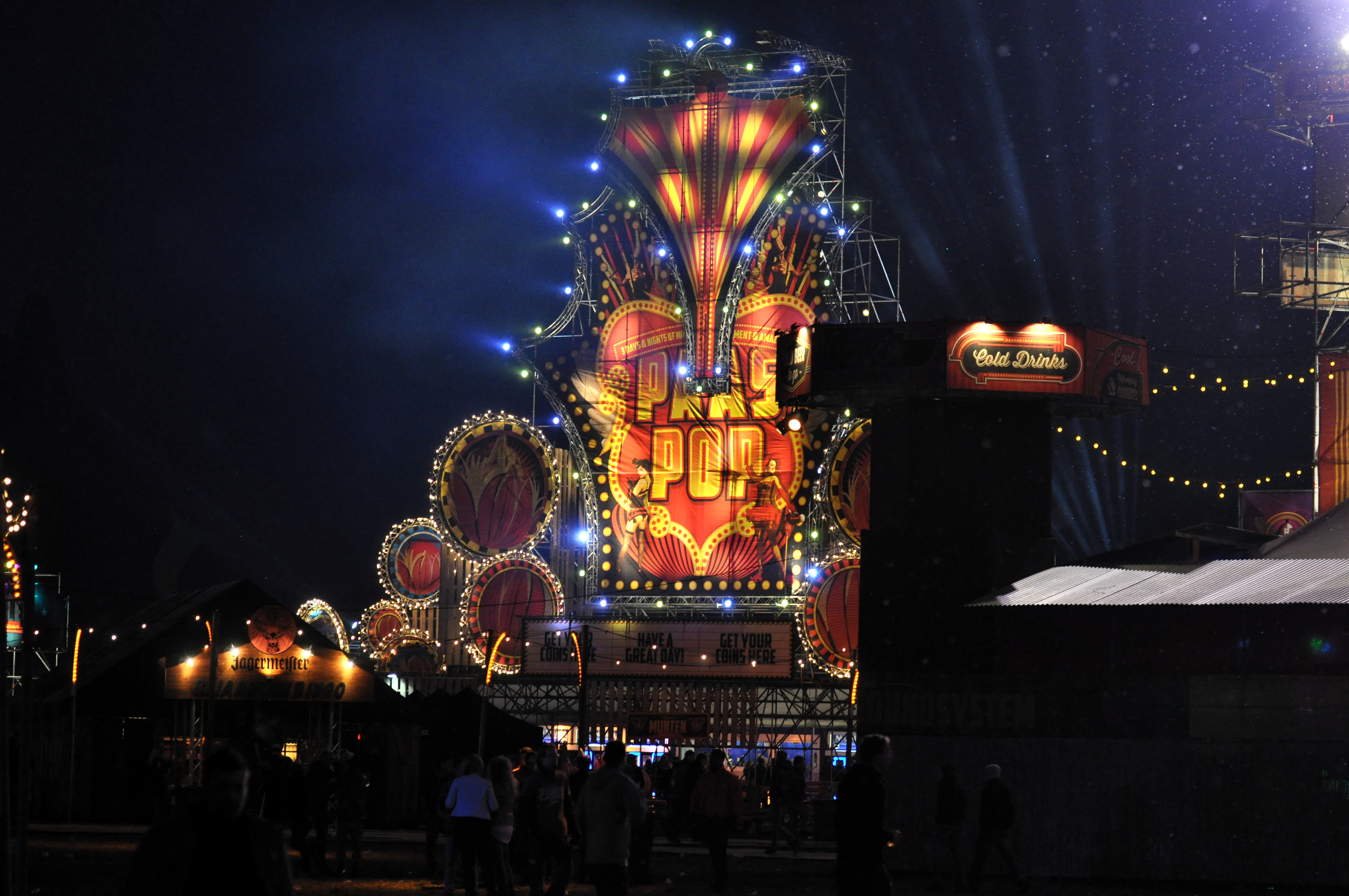 Impression from Paspop 2013, Schijndel, NL